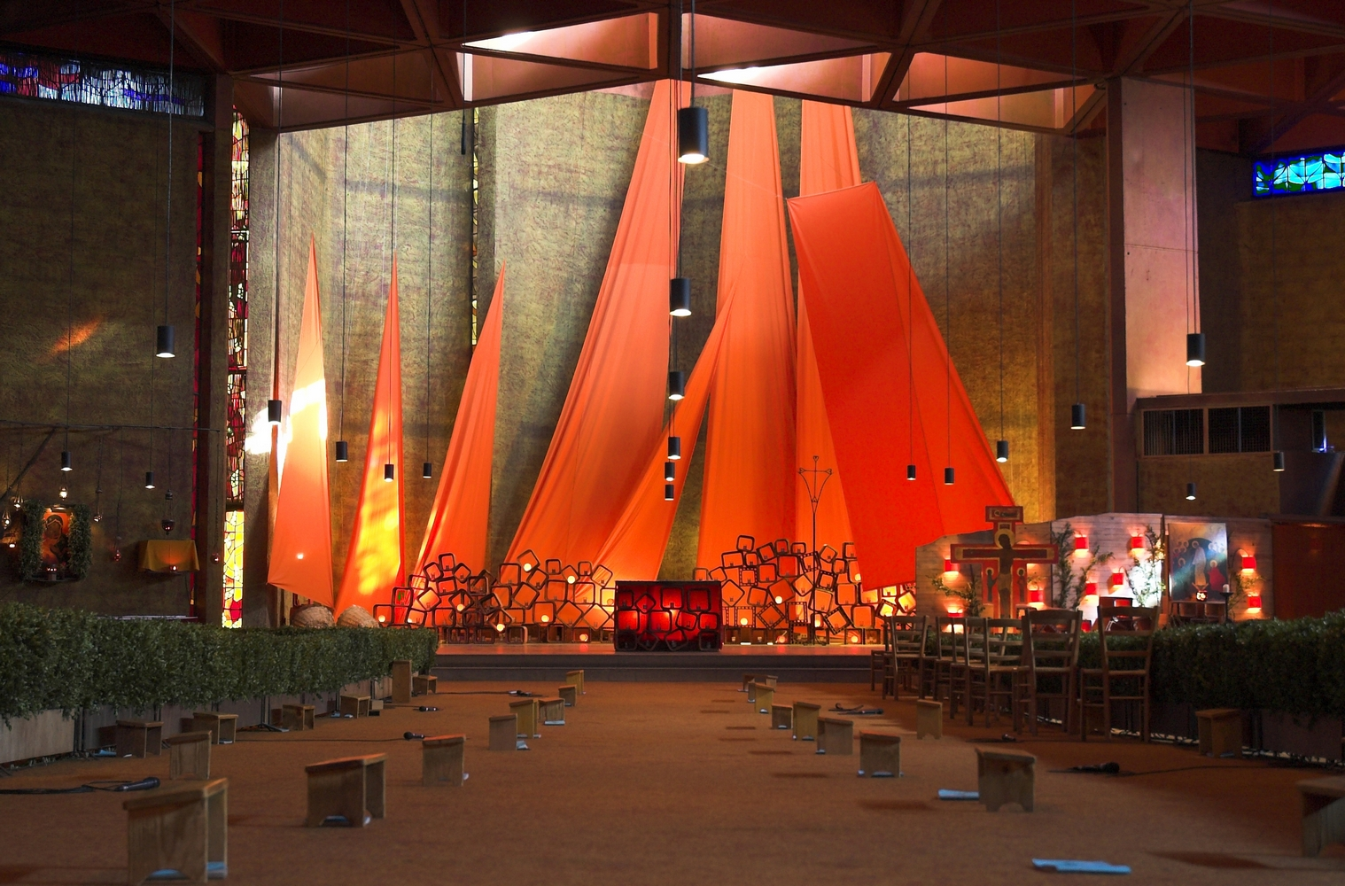 Made by me, Johannes Hahn, autumn 2005, with Nikon D70. Johanneshahn